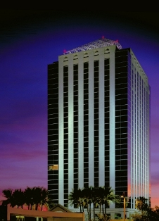 The 3800 Tower at Phoenix City Square, in downtown Phoenix, Arizona.